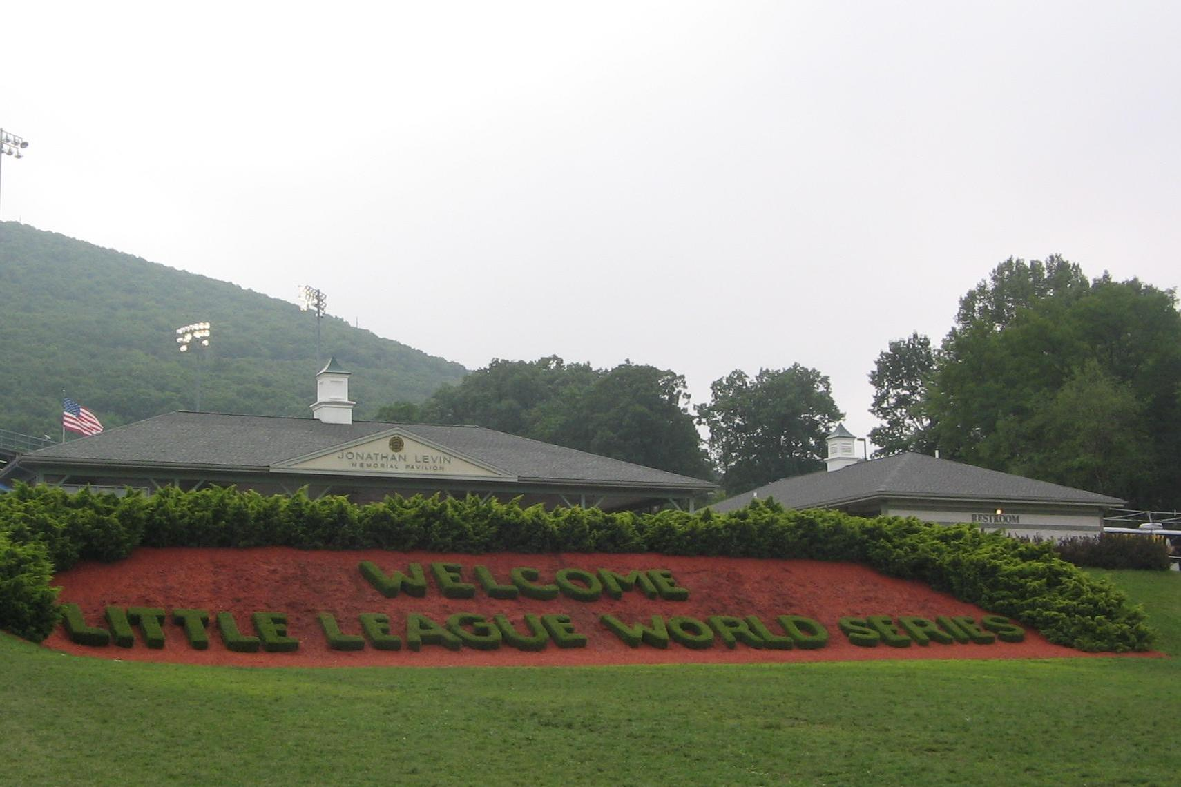 Cropped version of topiary Welcome Sign at the 2007 Little League World Series in South Williamsport, Lycoming County, Pennsylvania, USA